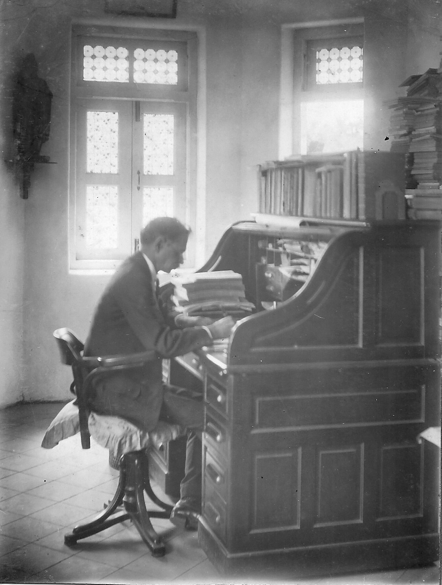 Braz Fernandes at his desk